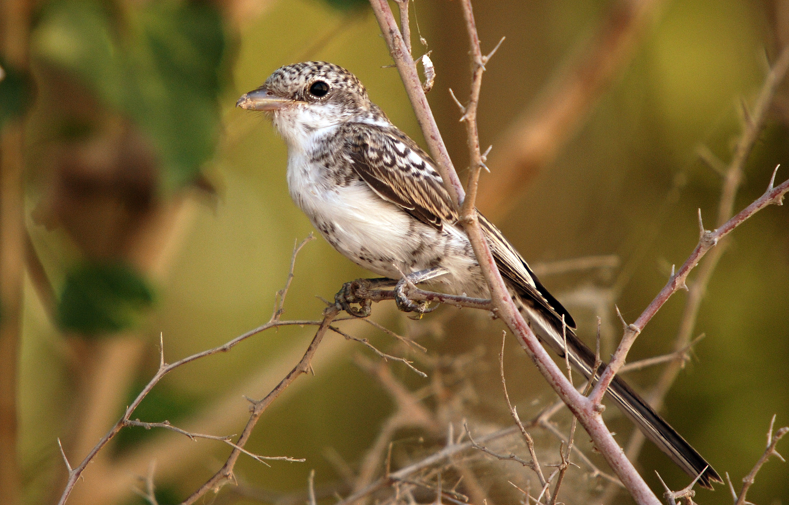 A female Masked Shrike